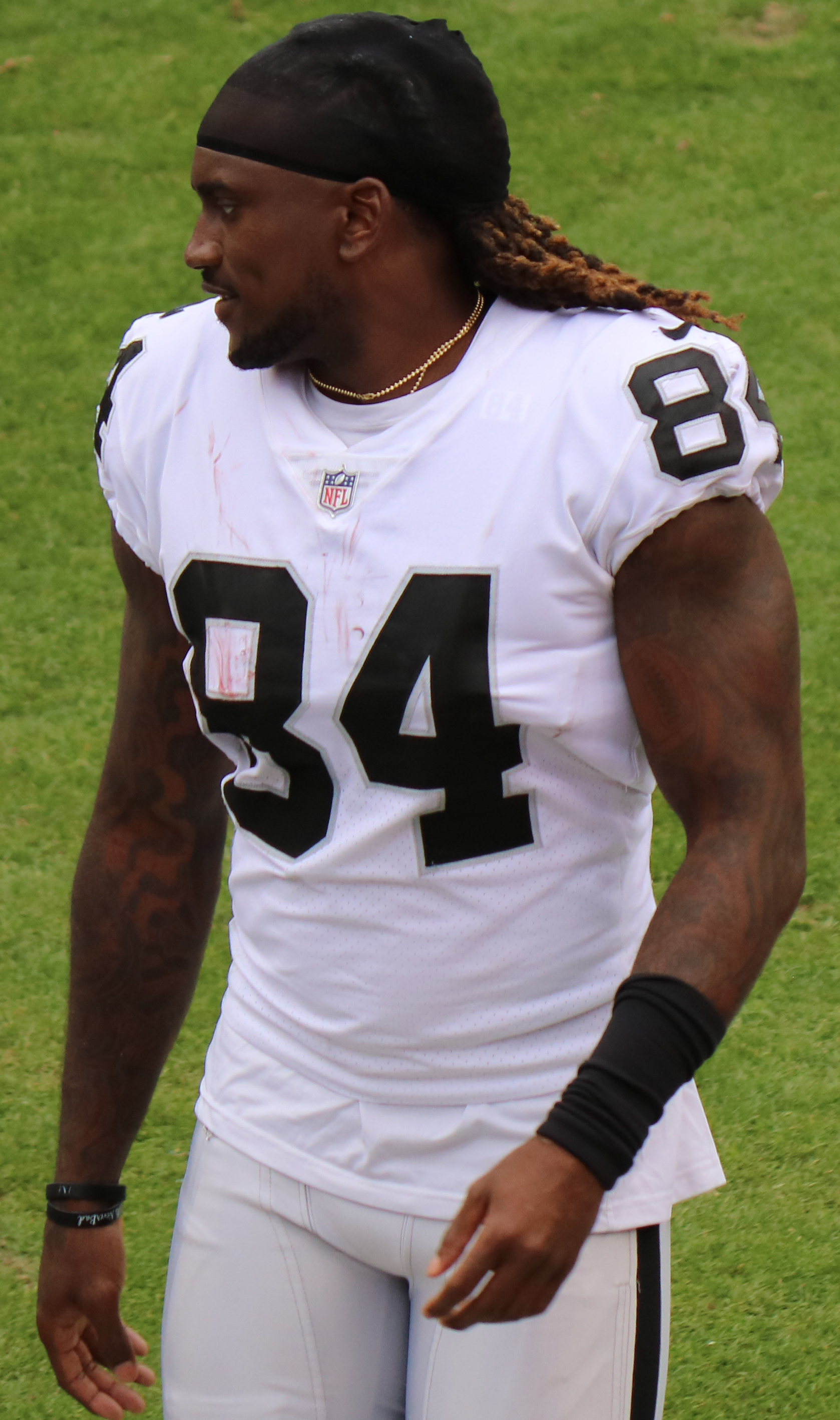 Cordarrelle Patterson, a player on the National Football League.